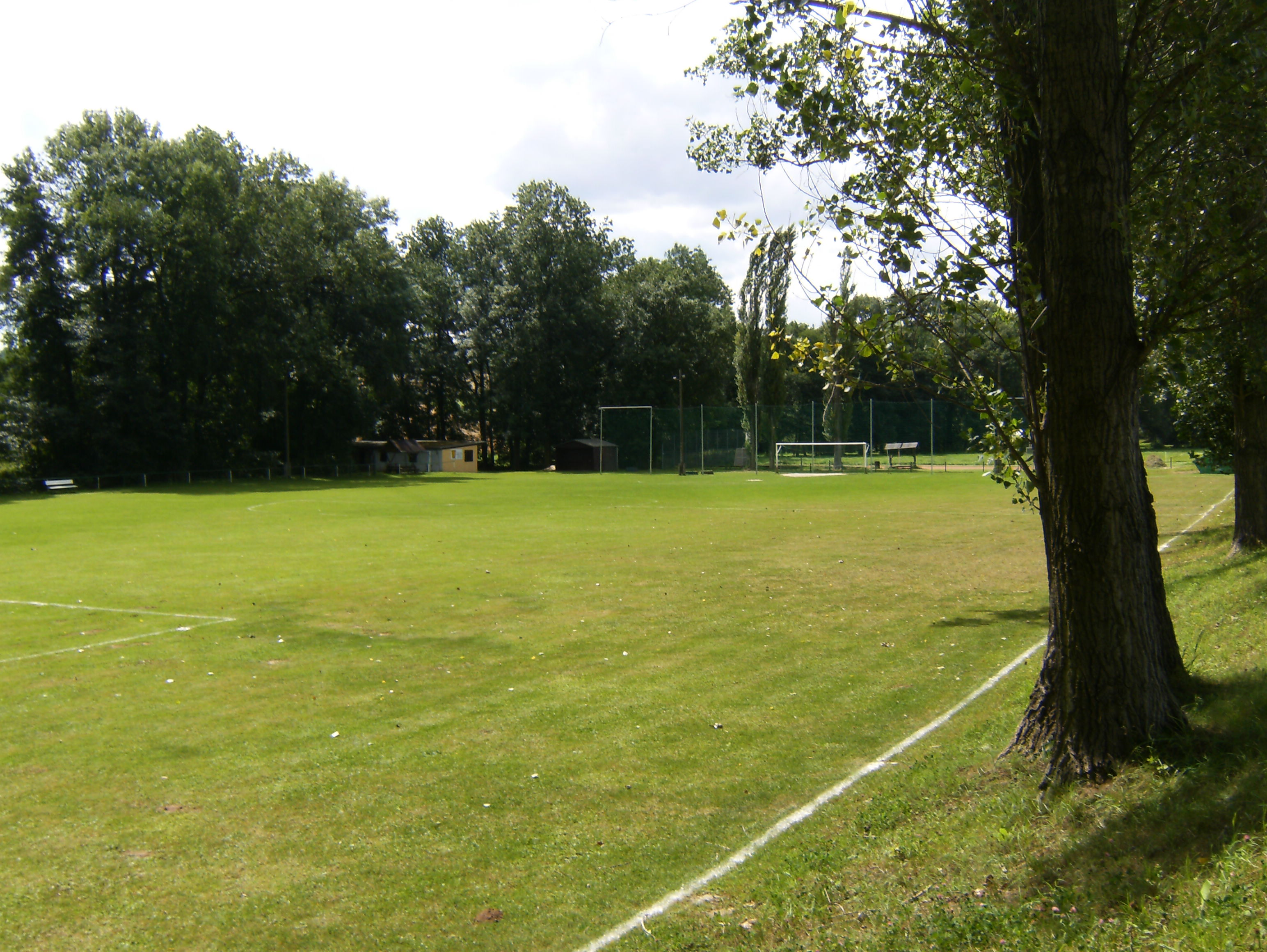 Gera Roepsen, sports field.